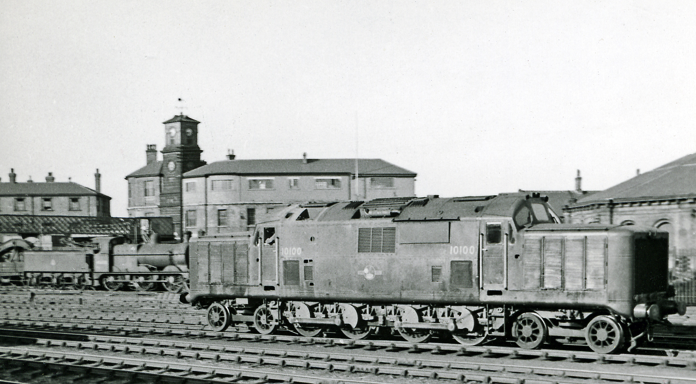 Experimental LMR Diesel-Mechanical 4-8-4 at Derby. View eastward from Derby Station towards the Locomotive Works. LMS/Fell 2-D-2 Diesel-Mechanical No. 10100 was designed as a prototype 2,000hp locomotive and built in 1950, but only began trials in 1/51. In 1/52 it began scheduled work on passenger trains between Derby and Manchester Central by the Peak Line: it continued, with some prolonged interruptions, on this line until it broke down in 10/58 and was withdrawn, but it was not scrapped until 7/60. Although a comparative success, the design was not perpetuated. Here in 1957 No. 10100 is outside Derby Locomotive Depot - and over to the left is a very much older but very useful Midland 3F 0-6-0 steam locomotive.